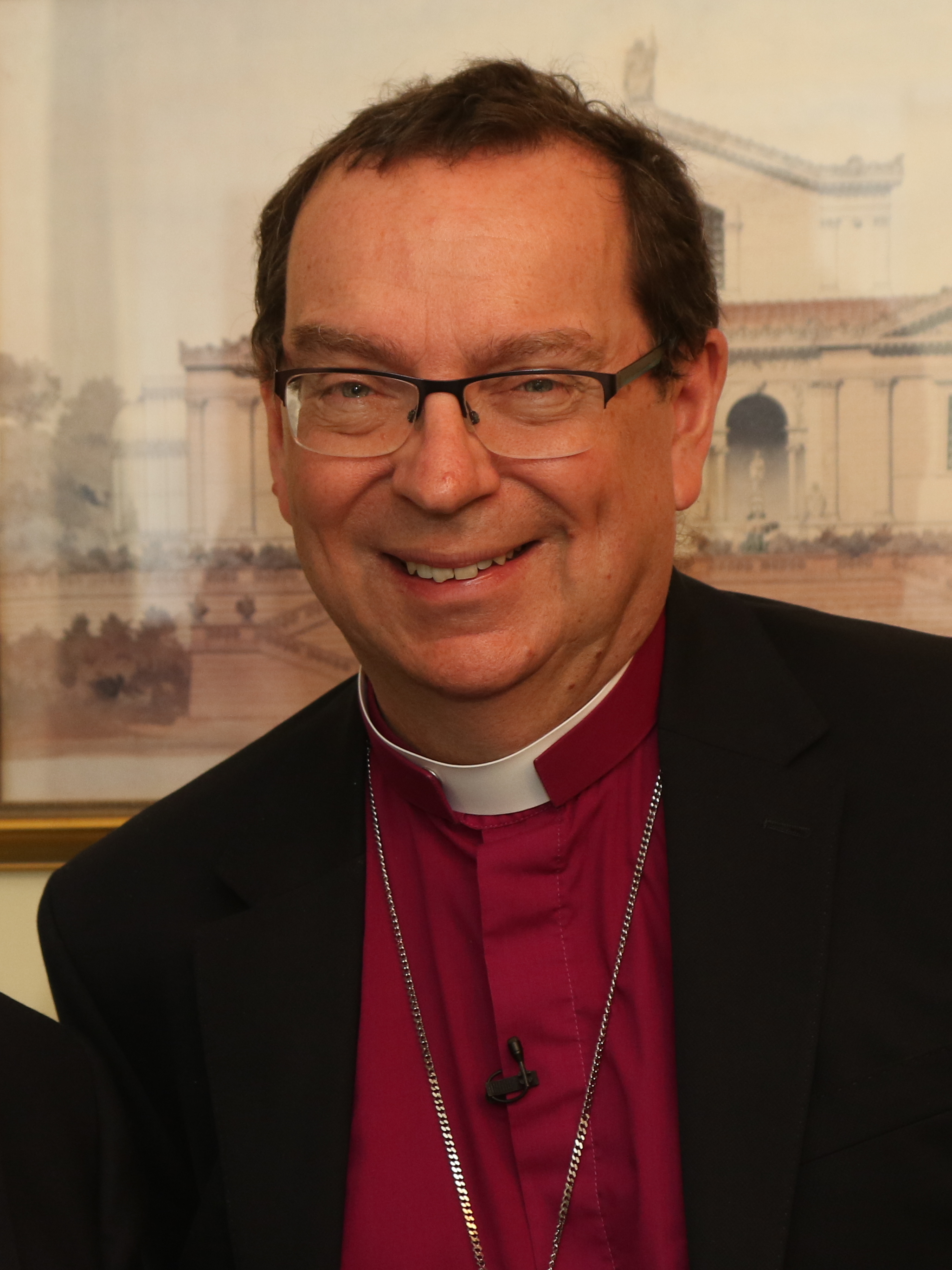 Lord Ahmad of Wimbledon and Bishop Philip Mounstephen